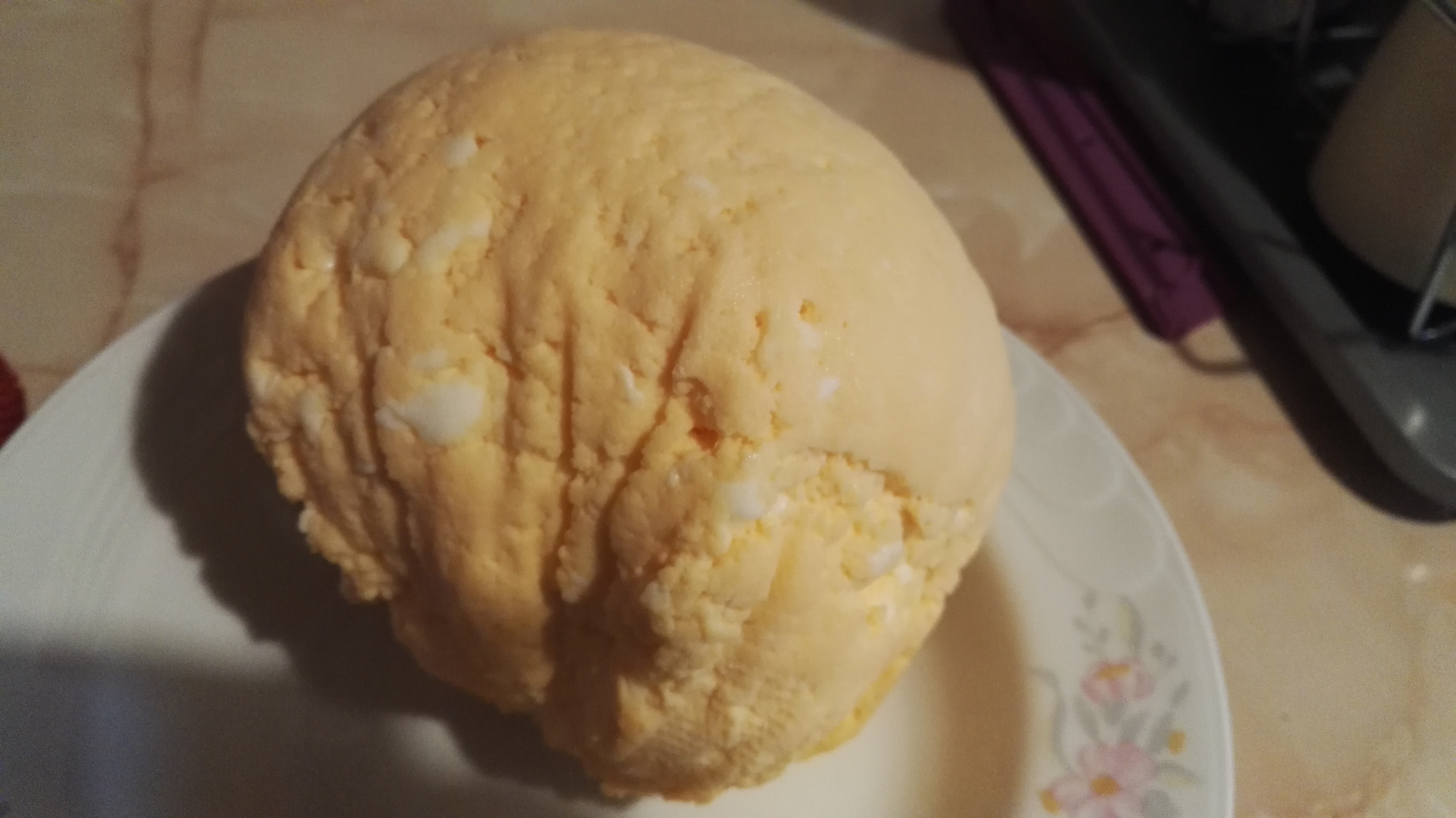 Sárgatúró (literally: "yellow curd cheese"), an Easter delicacy in Eastern Hungary made of milk, eggs and sugar, cooked into a curd cheese consistency, filtered through a cheese cloth and hung to drip until it comes together completely.